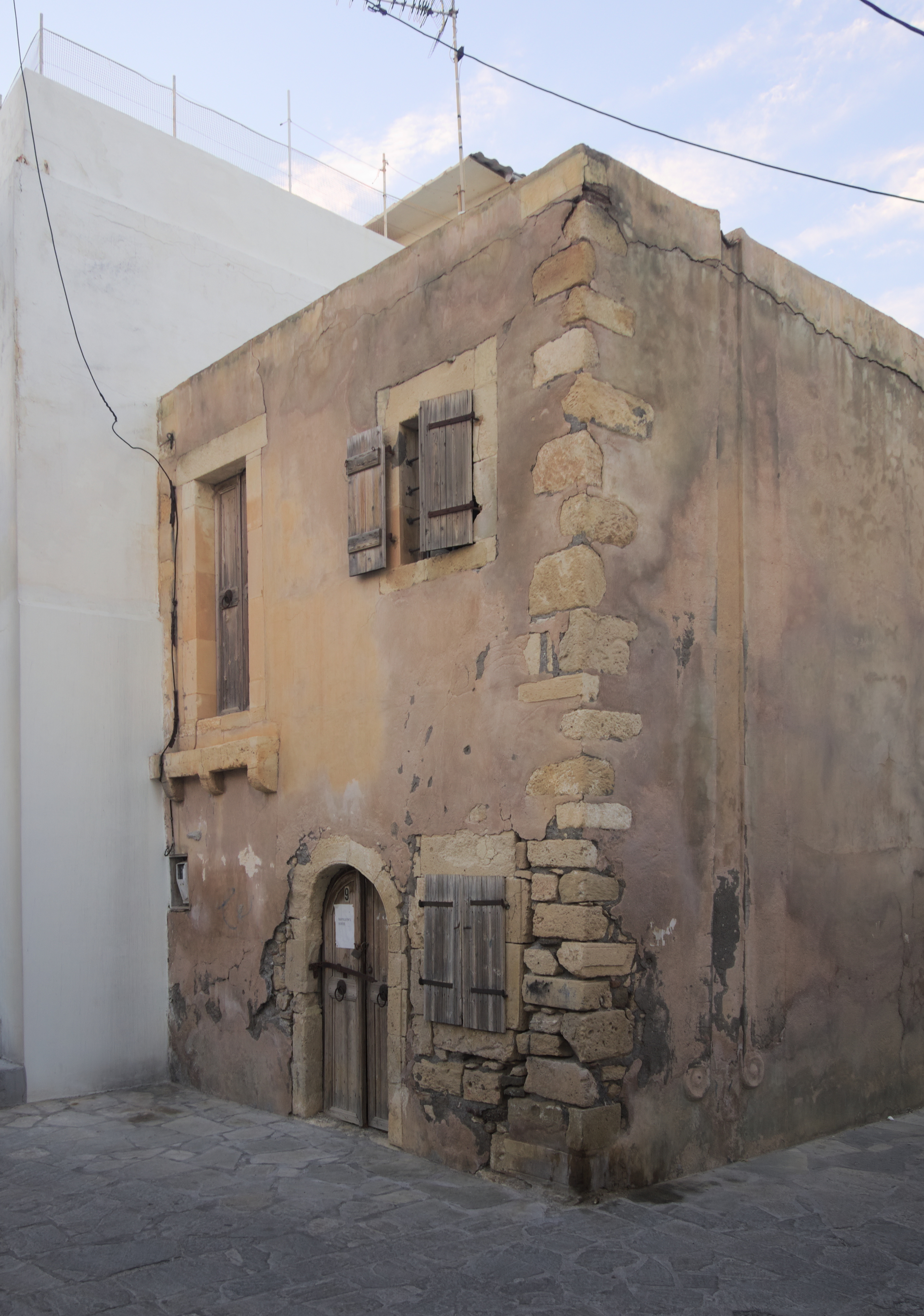 The so-called House of Napoleon, where according to the local tradition, Napoleon stayed for one night, while on the way to Egypt, in 1798.